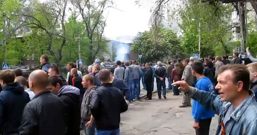 Standoff between locals and Ukrainian forces in Mariupol, 9 May 2014.